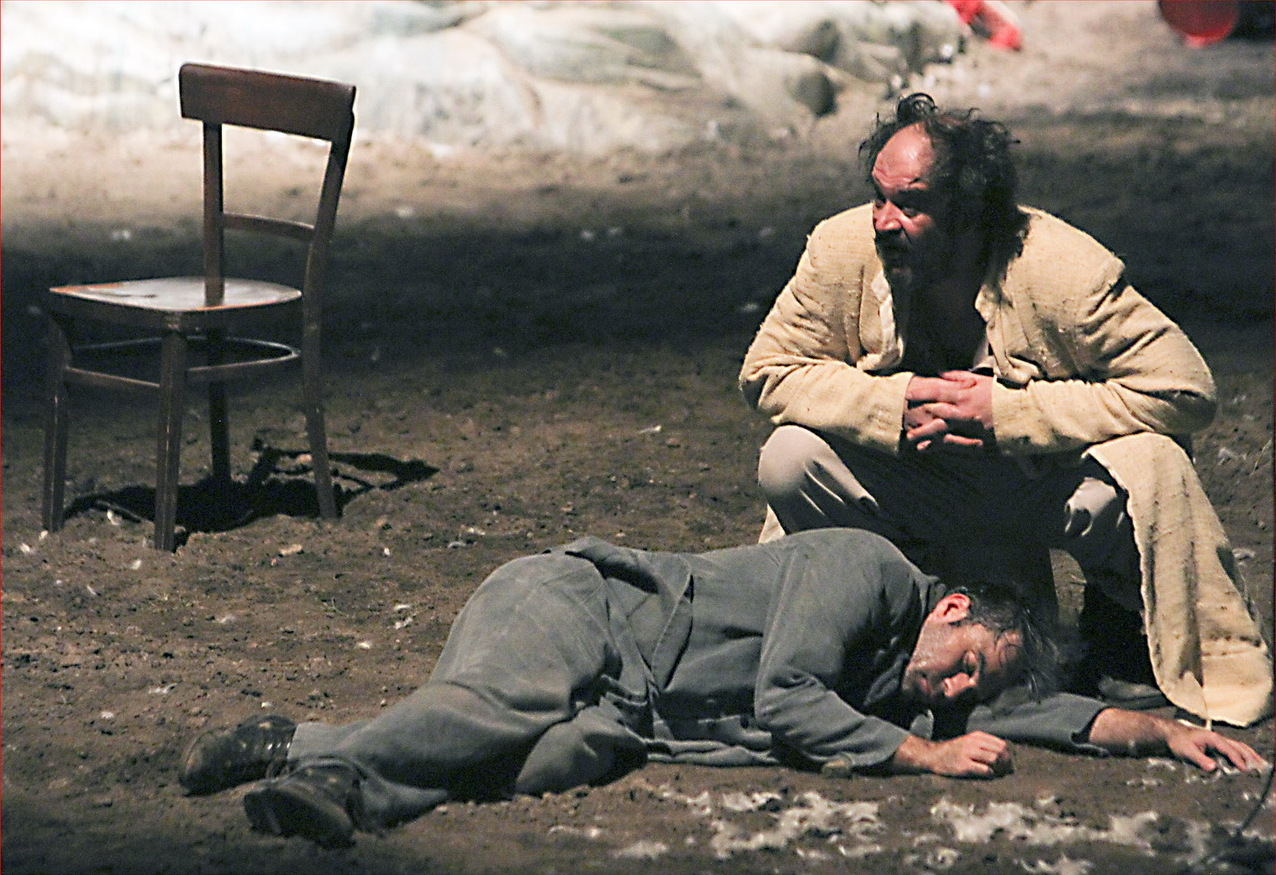 "Odyssey" by Goran Stefanovski, the Drama of the Serbian National Theatre (Co-Production with "Kazalište Ulysses", Zagreb; "GDK Gavella", Zagreb; "Slovensko narodno gledališče – Drama", Maribor; "Pozorište Atelje 212" Belgrade, "Sterijino pozorje", Novi Sad and "Театар на Навигаторот Скопје"), SNT Novi Sad, 2012/13; Boris Isaković, Ozren Grabarić Srpski (latinica): „Odisej” Gorana Stefanovskog, Drama Srpskog narodnog pozorišta (koprodukcija sa "Kazalištem Ulysses", Zagreb; "GDK Gavella", Zagreb; "Slovenskim narodnim gledališčem – Drama", Maribor; "Pozorištem Atelje 212" Belgrade, "Sterijinim pozorjem", Novi Sad i "Театар на Навигаторот Скопје"), SNP, Novi Sad, 2012/13; Boris Isaković, Ozren Grabarić Српски (ћирилица): "Одисеј" Горана Стефановског, Драма Српског народног позоришта (копродукција са „Казалиштем Ulysses", Загреб, "ГДК Gavella", Загреб, „Словенским народним гледалишчем – Драма", Марибор; "Позориштем Атеље 212", Београд, „Стеријиним позорјем", Нови Сад и "Театаром на Навигаторот Скопје"); СНП, Нови Сад, 2012/13; Борис Исаковић, Озрен Грабарић